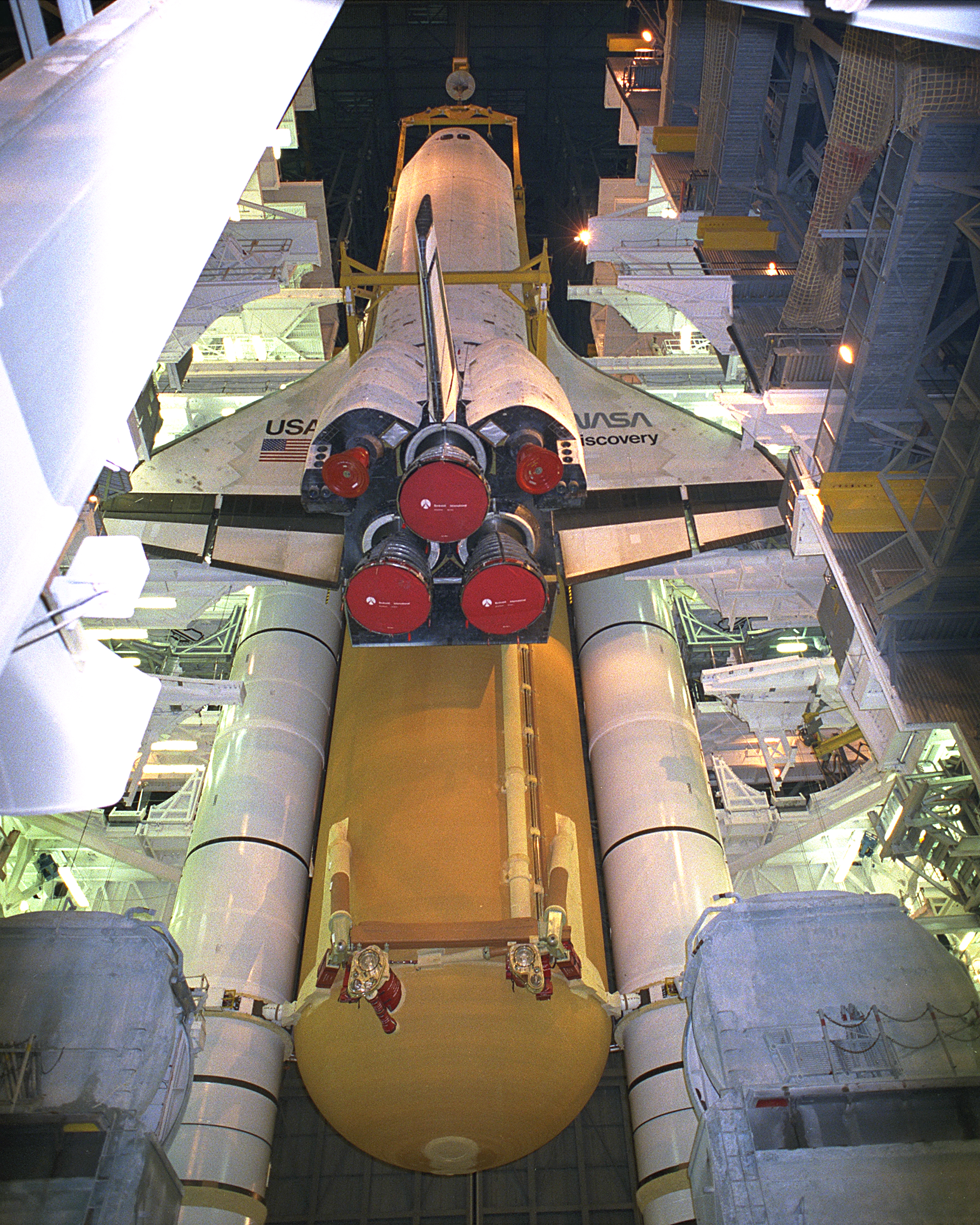 Inside the cavernous Vehicle Assembly Building, workers carry out the meticulous process of lifting the orbiter Discovery from a horizontal to a vertical position. Once upright, Discovery will be transferred into a high bay for mating with the external tank/solid rocket booster assembly already mounted on the mobile launcher platform. Completing the assembly process takes about five working days. Discovery's next destination, Launch Pad 39B, and final preparations for liftoff on Mission STS-70 in early June.